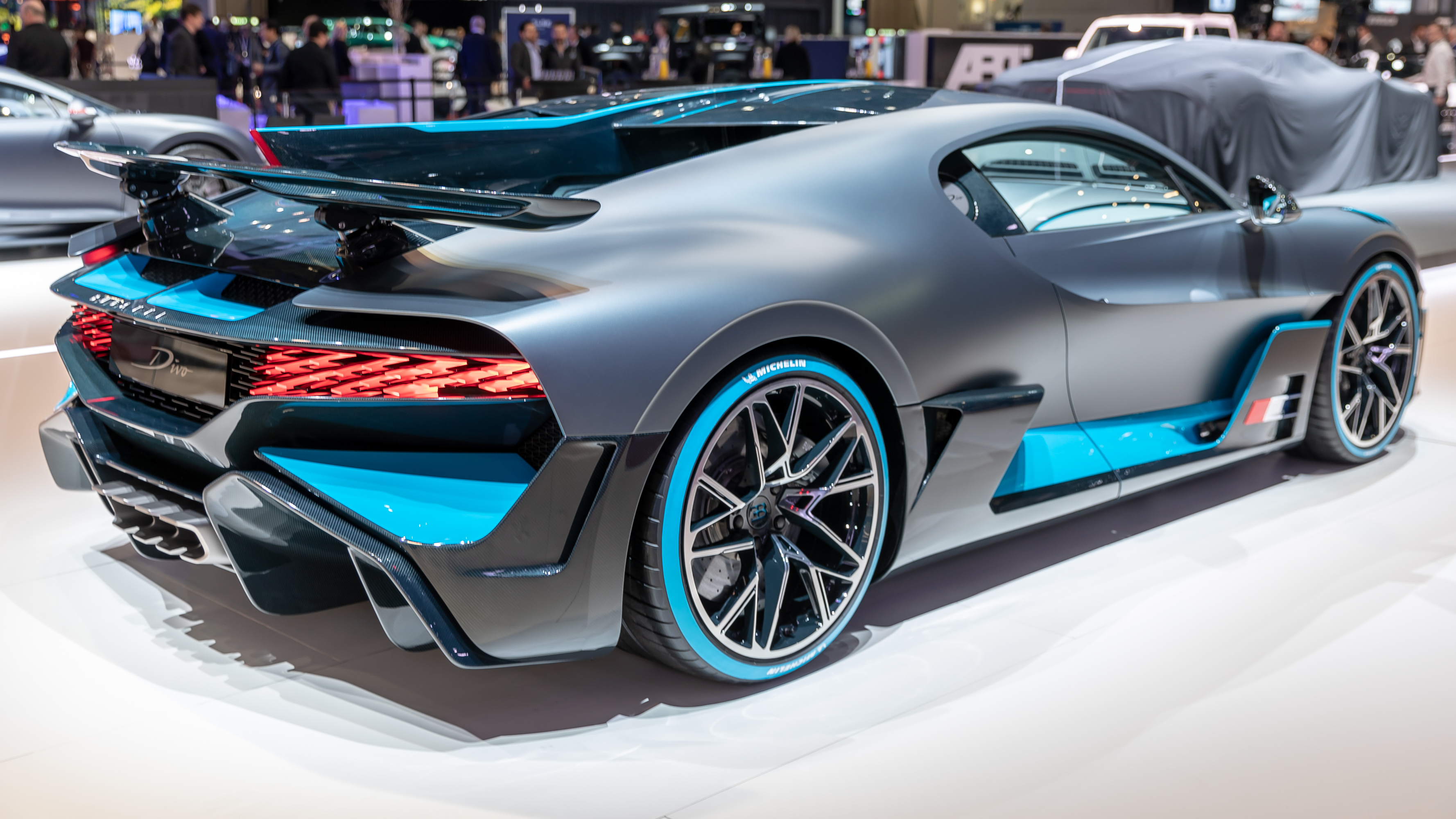 Bugatti Divo at Geneva International Motor Show 2019, Le Grand-Saconnex